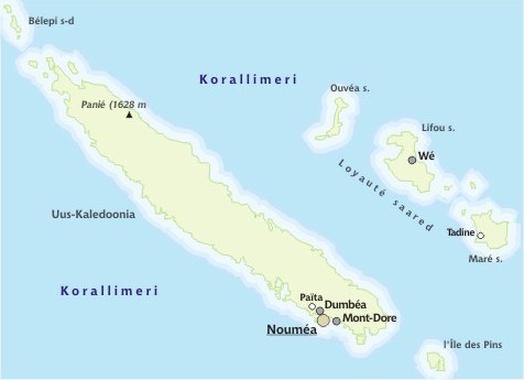 Map of New Caledonia in Estonian